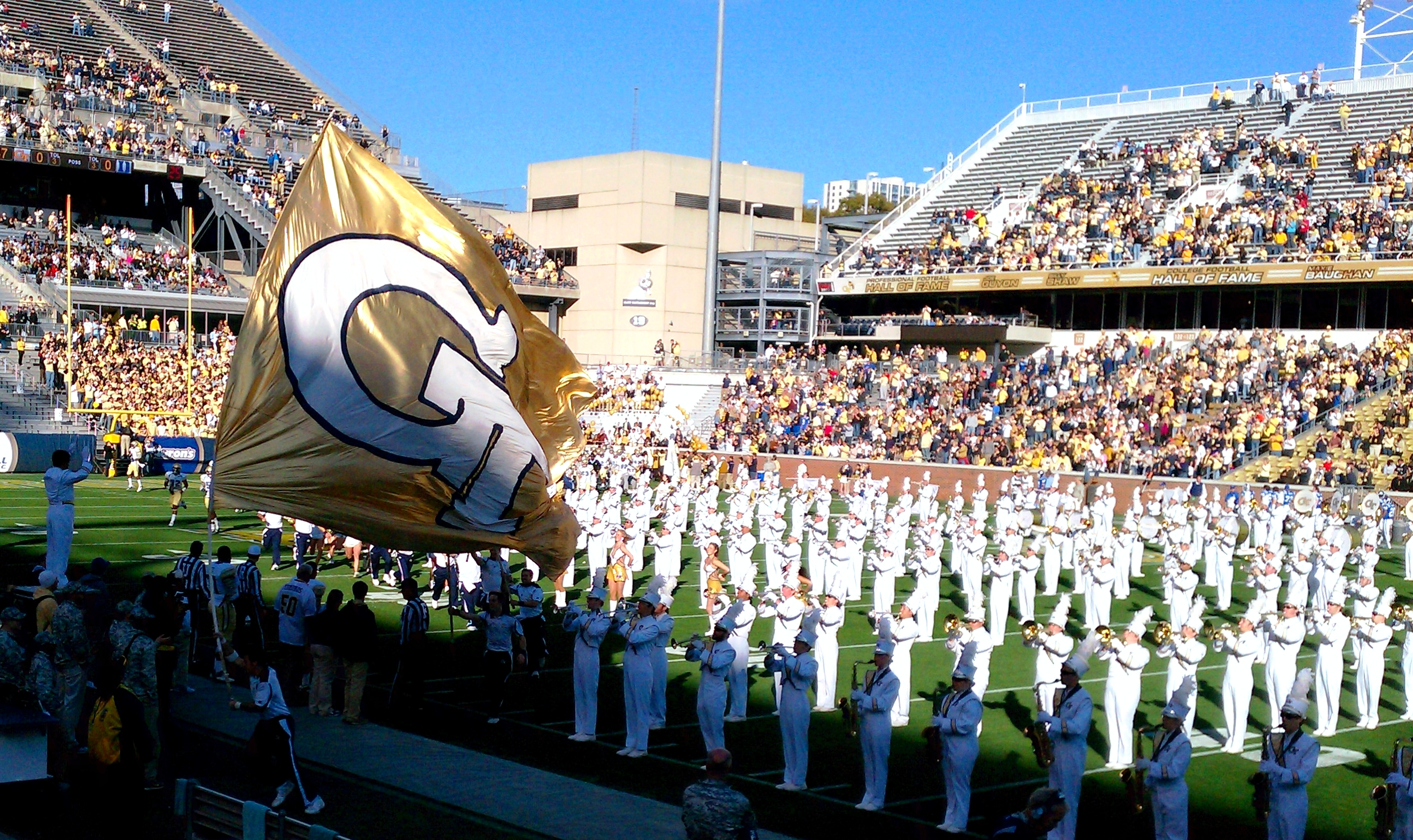 Picture of Georgia Tech Marching band playing in Bobby Dodd stadium at Grant Field before Duke football game